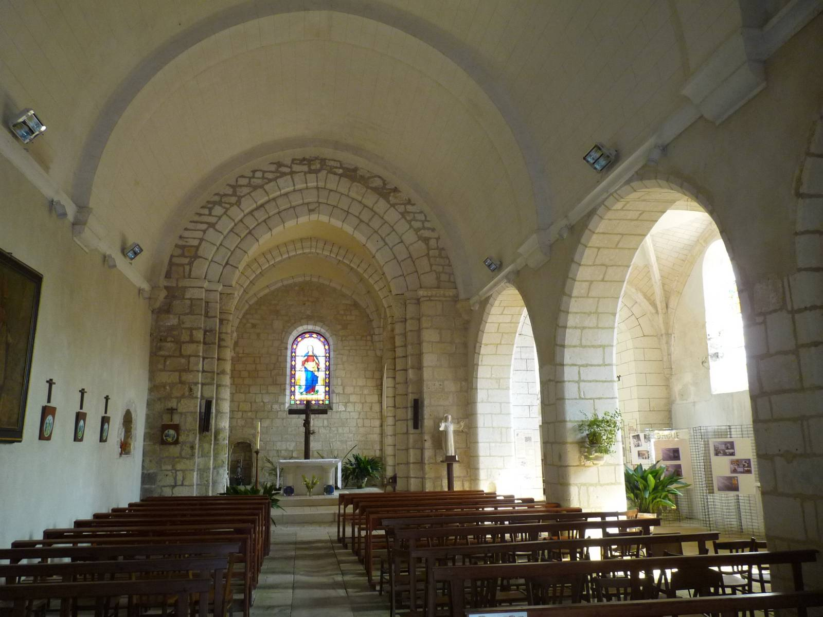 church of Pranzac, Charente, SW France